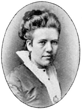 Image scanned from the book "Svenskt Porträttgalleri XX - Arkitekter, Bildhuggare, Målare m.fl. " ("Swedish Portrait Gallery XX - Architects, Sculptors, Painters, ") published 1901